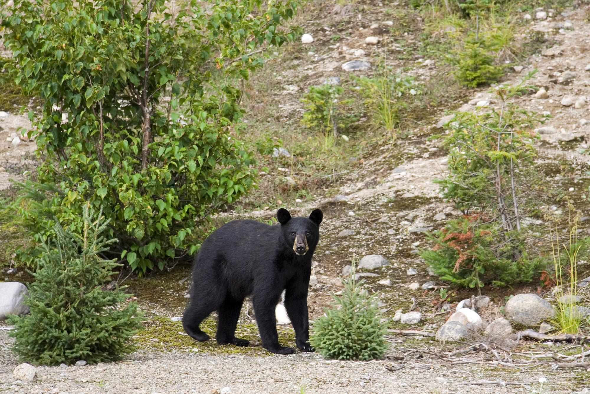 American Black Bear (Ursus americanus), Réserve faunique des Laurentides, Quebec, Canada.